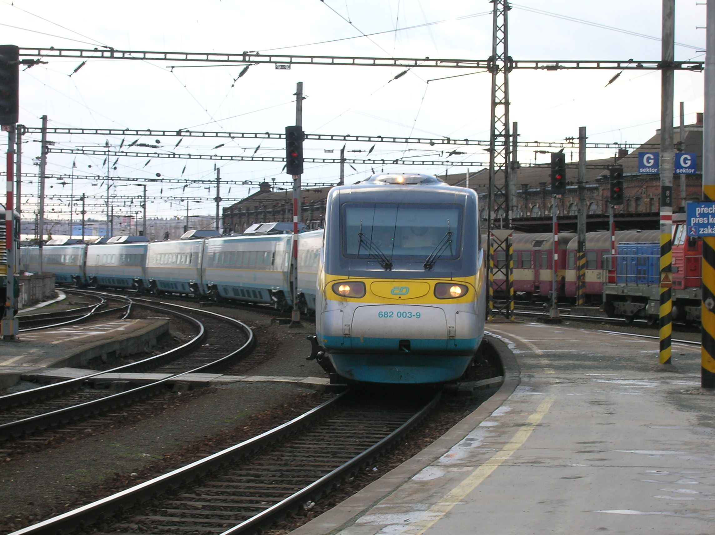 682 003 - 9 Pendolino approaching the station Brno